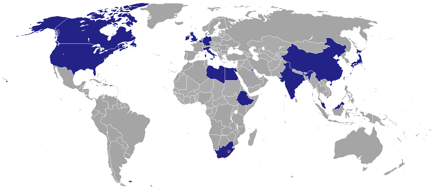 Map of Basotho diplomatic missions